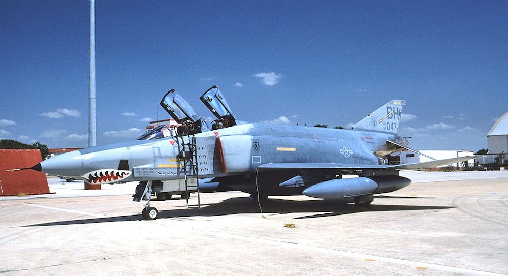 106th Tactical Reconnaissance Squadron McDonnell RF-4C-22-MC Phantom 64-1047, shown at Shaikh Isa Air Base, Bahrain during Operation Desert Shield. Note the numerous "camels", painted on its intake, representing the number of missions flown. 1047 Flew 172 sorties in Desert Shield. After its retirement in 1994, the aircraft was flown to Wright-Patterson AFB, Ohio where today it is on permanent display at the Museum of the United States Air Force.